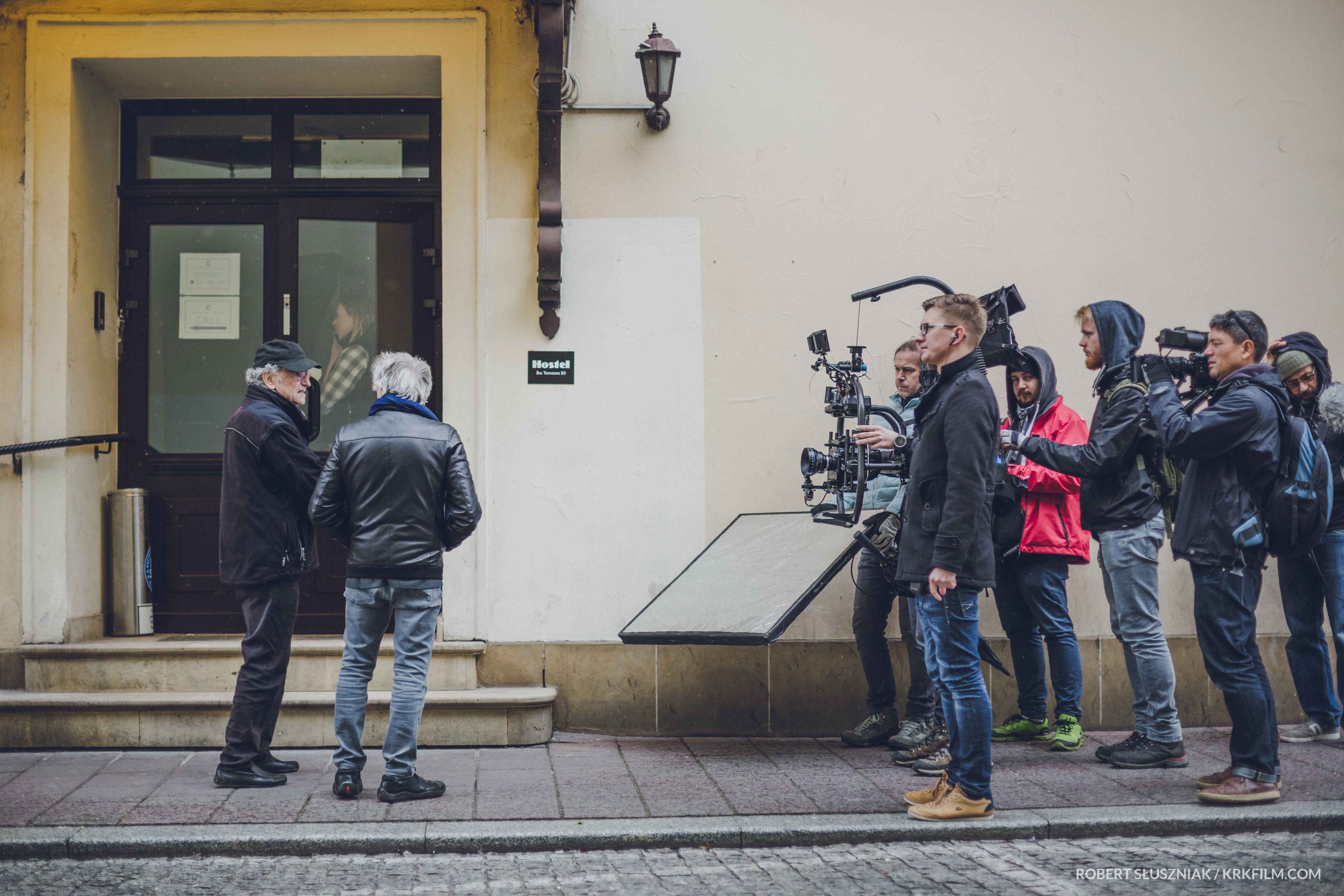 Ryszard Horowitz, Roman Polanski, Mateusz Kudla and the film crew on the set of "Polanski, Horowitz. The Wizards from the Ghetto" (dir. Mateusz Kudla, Anna Kokoszka-Romer). Photo by Robert Sluszniak (KRK FILM)